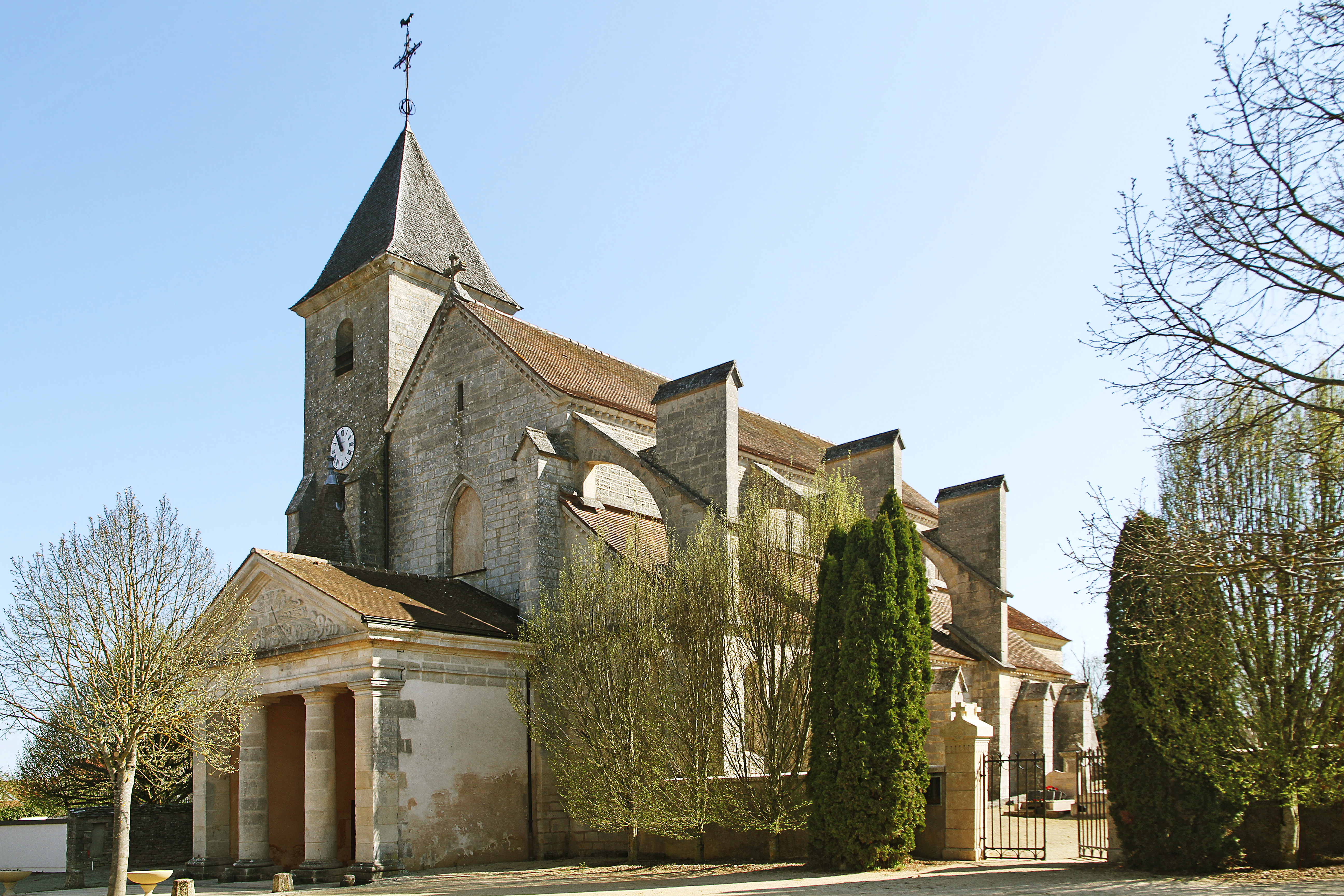 Church of Saint Pierre in Minot